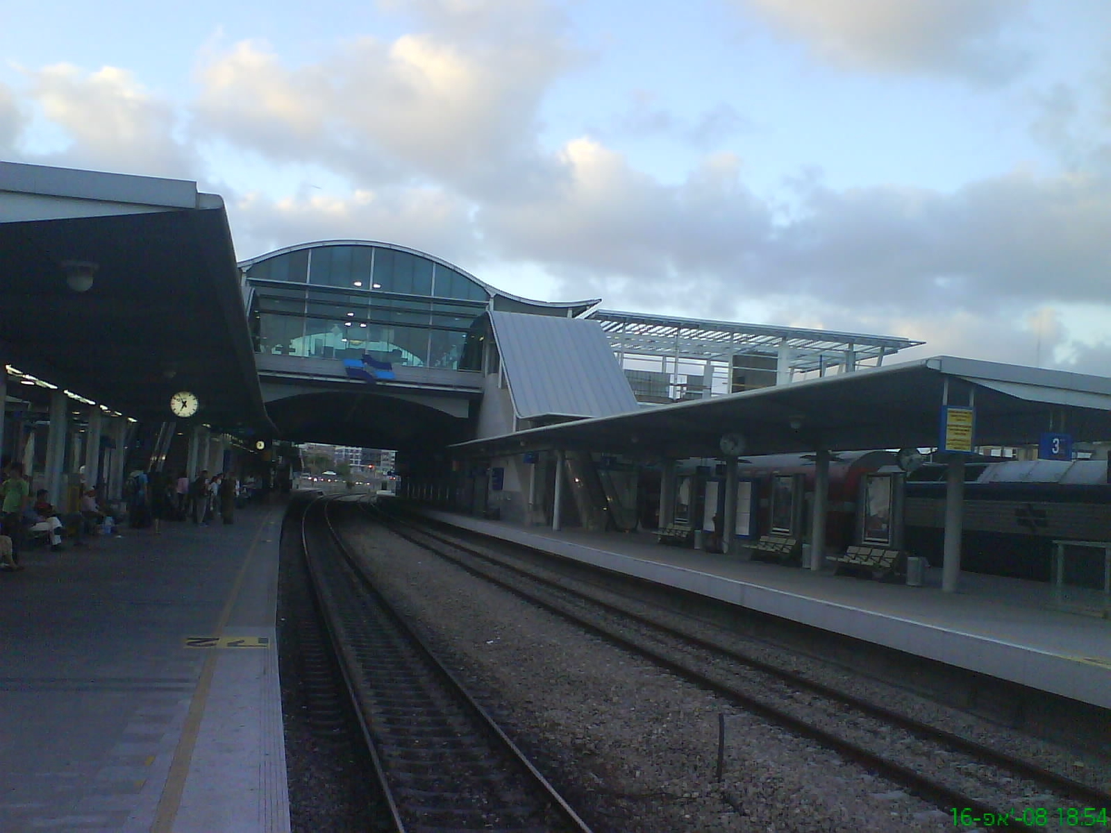 Tel-Aviv-Hagana railway station